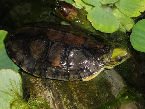 Torsten Blanck